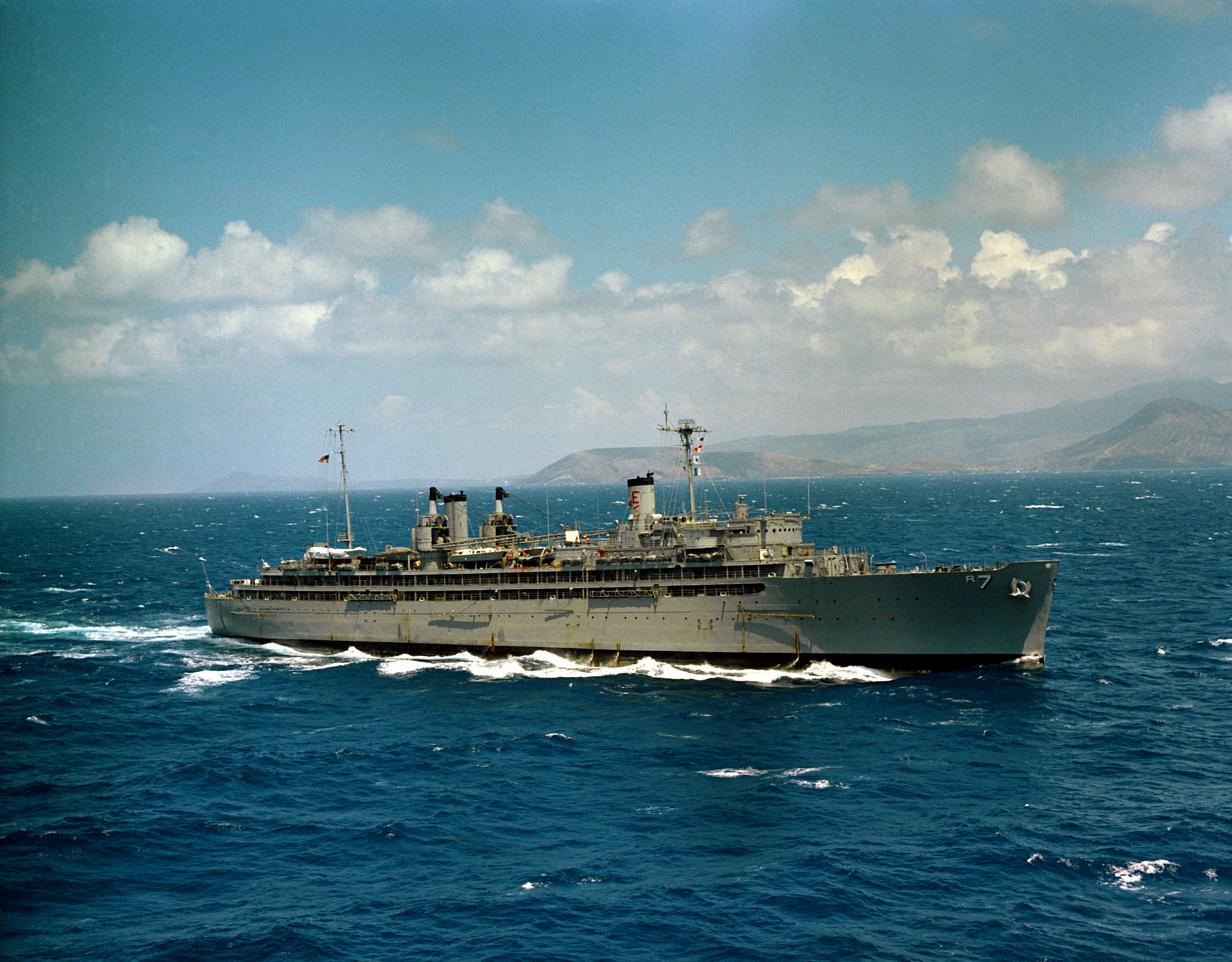 The U.S. Navy repair ship USS Hector (AR-7) underway at sea on 17 April 1985.